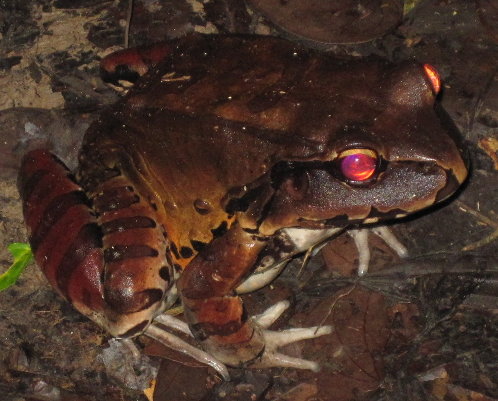 Leptodactylus pentadactylus (Smokey Jungle Frog), Amazon Rainforest, near Nauta, Peru, 2011